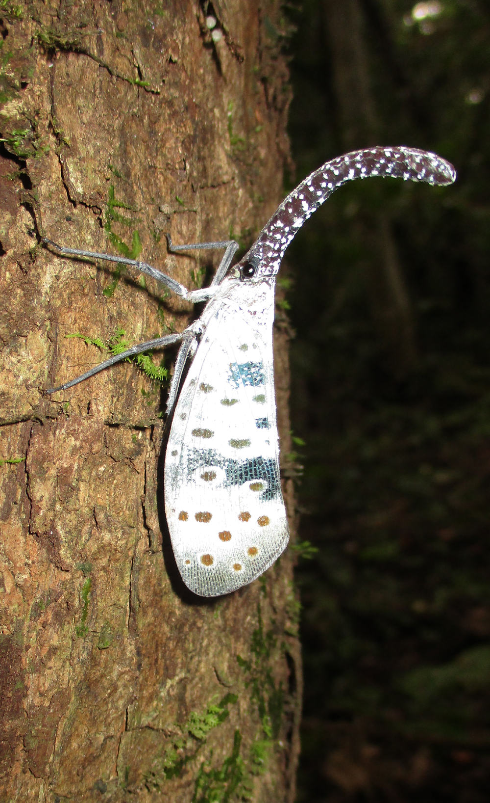 Pyrops coelestinus from Cat Tien National Park by Roy Bateman